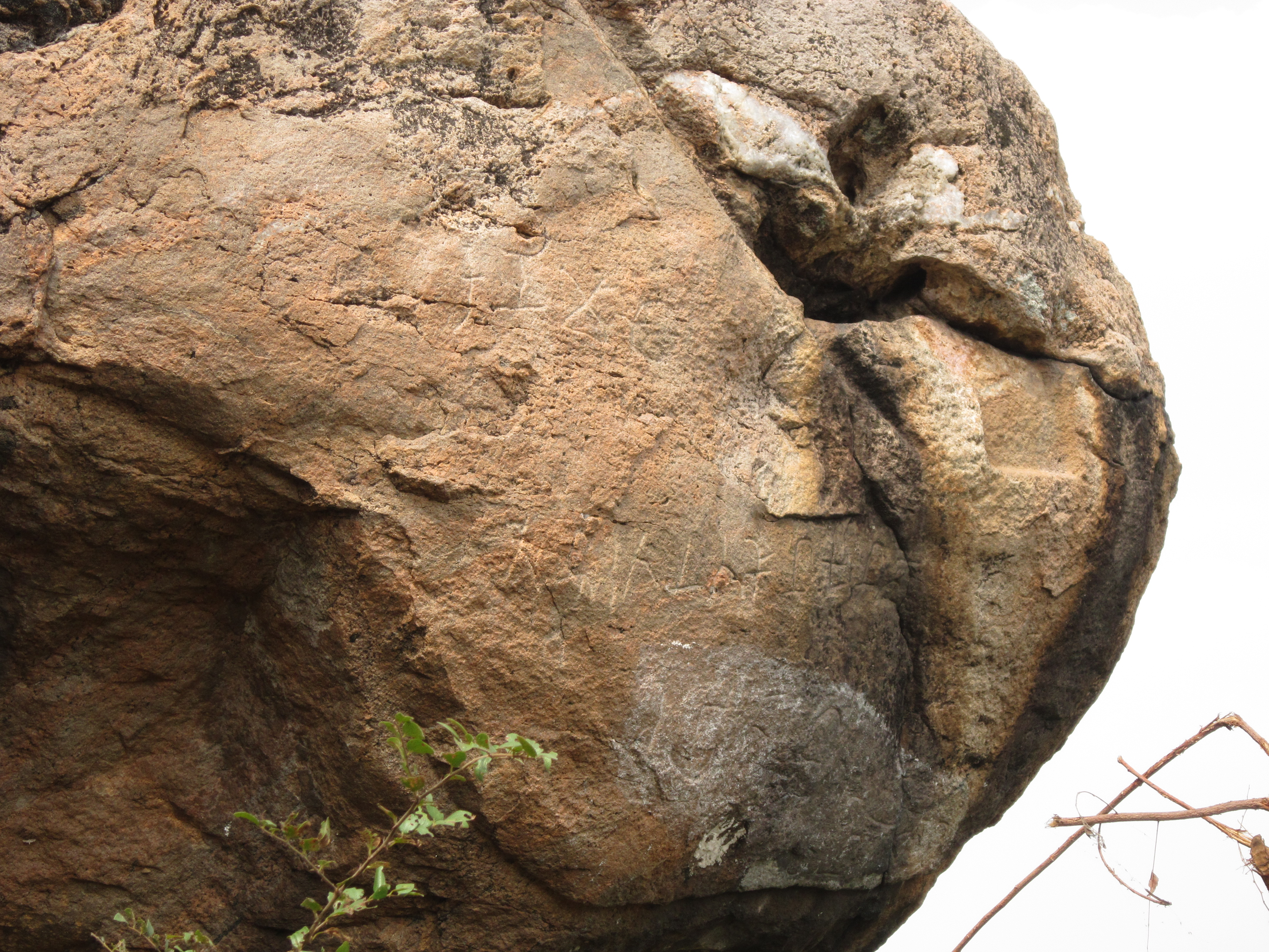 Rock cut caves Mamandur,Thiruvannamalai Inscriptions in Tamil Brahmi